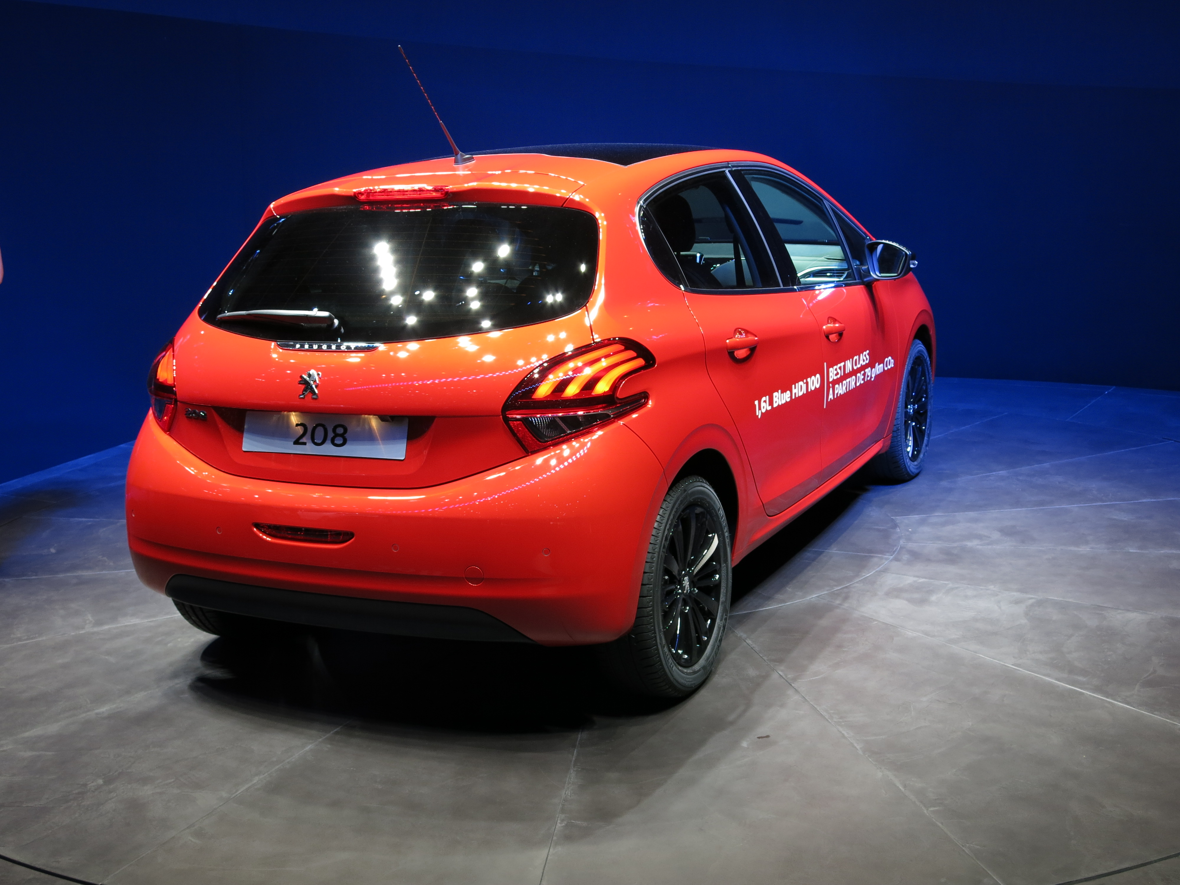 Geneva Motor Show 2015 (photo taken on the first press day)